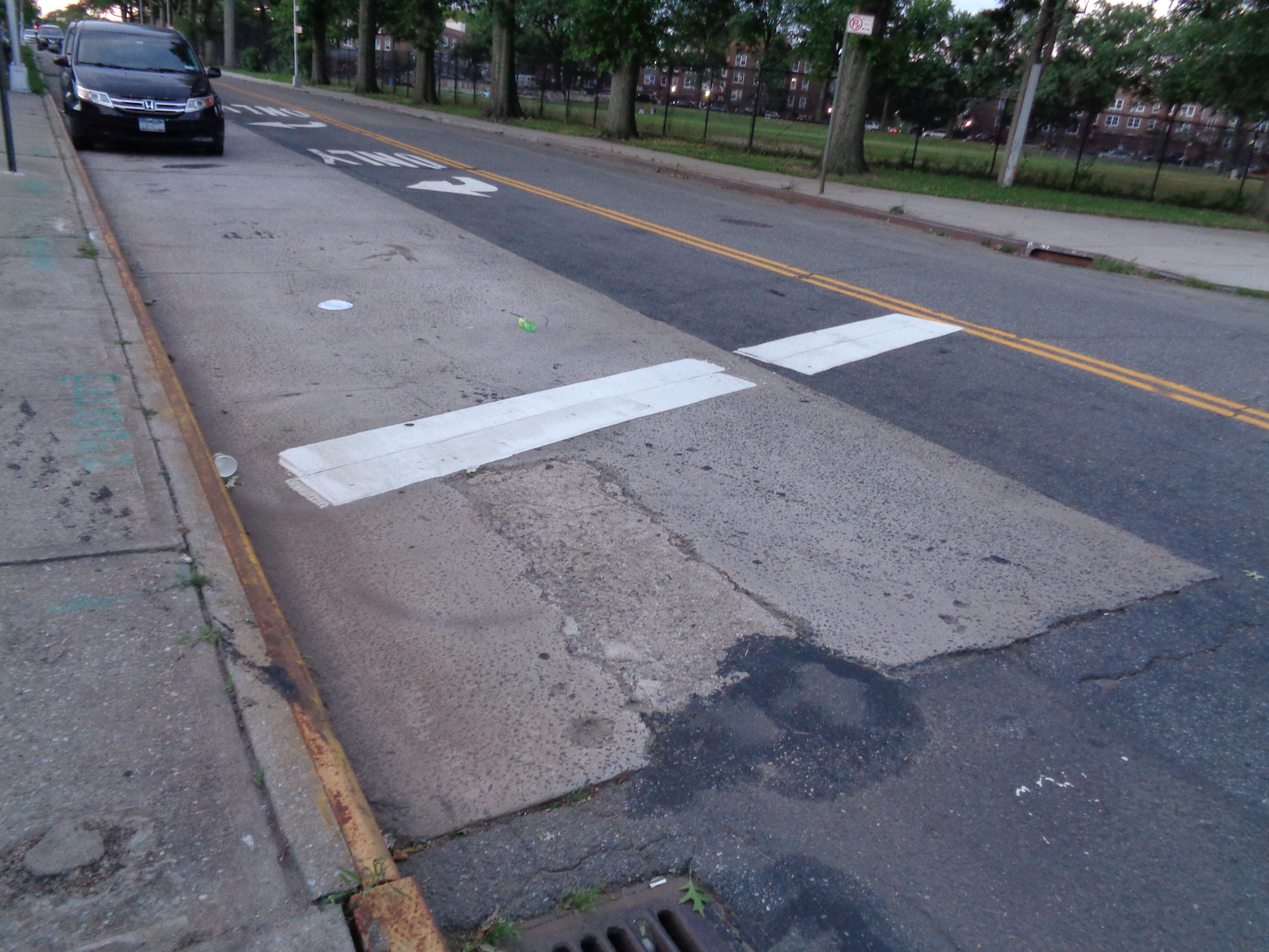 A former bus stop for Kew Gardens-bound Q74 service (now discontinued), at Vleigh Place and Union Turnpike near the Kew Gardens Interchange in Kew Gardens Hills, Queens. This was the last stop on the Q74 before Kew Gardens.